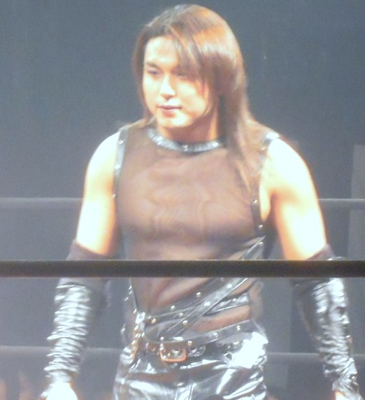 Japanese professional wrestler,Mineo Fujita. Feb 25 2011, 666 Shin-kiba 1st Ring.